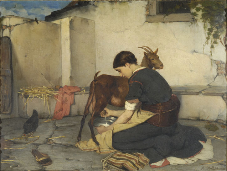 Milking the Goat